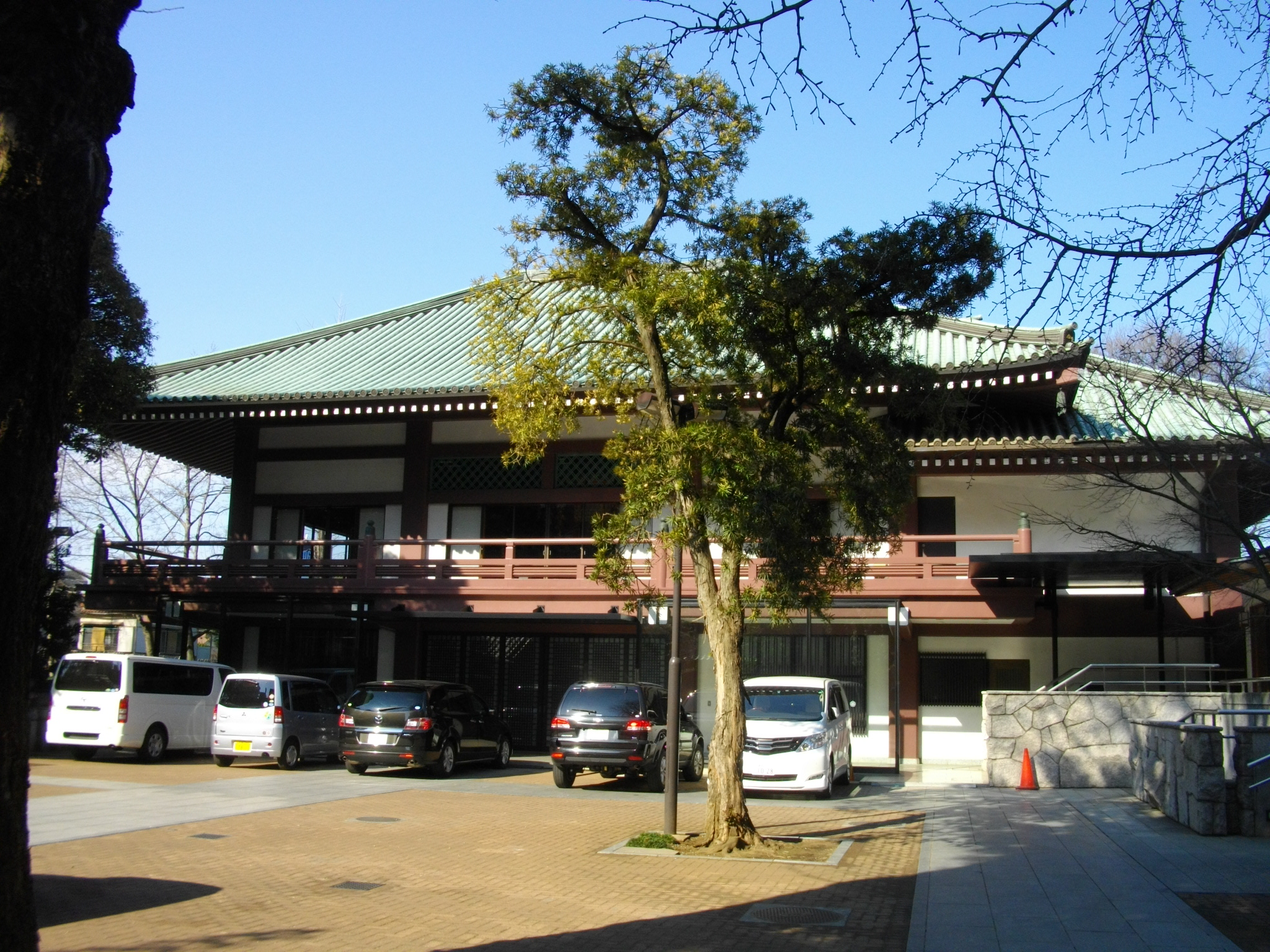 Shoun-ji (Toshima, Tokyo)